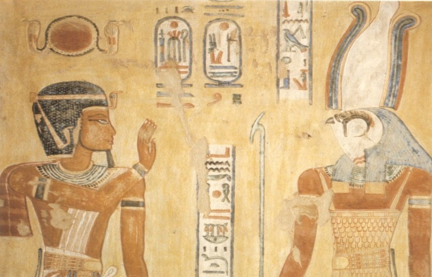 Ramses III. in front of god Horus in tomb of Khaemwaset (QV44)